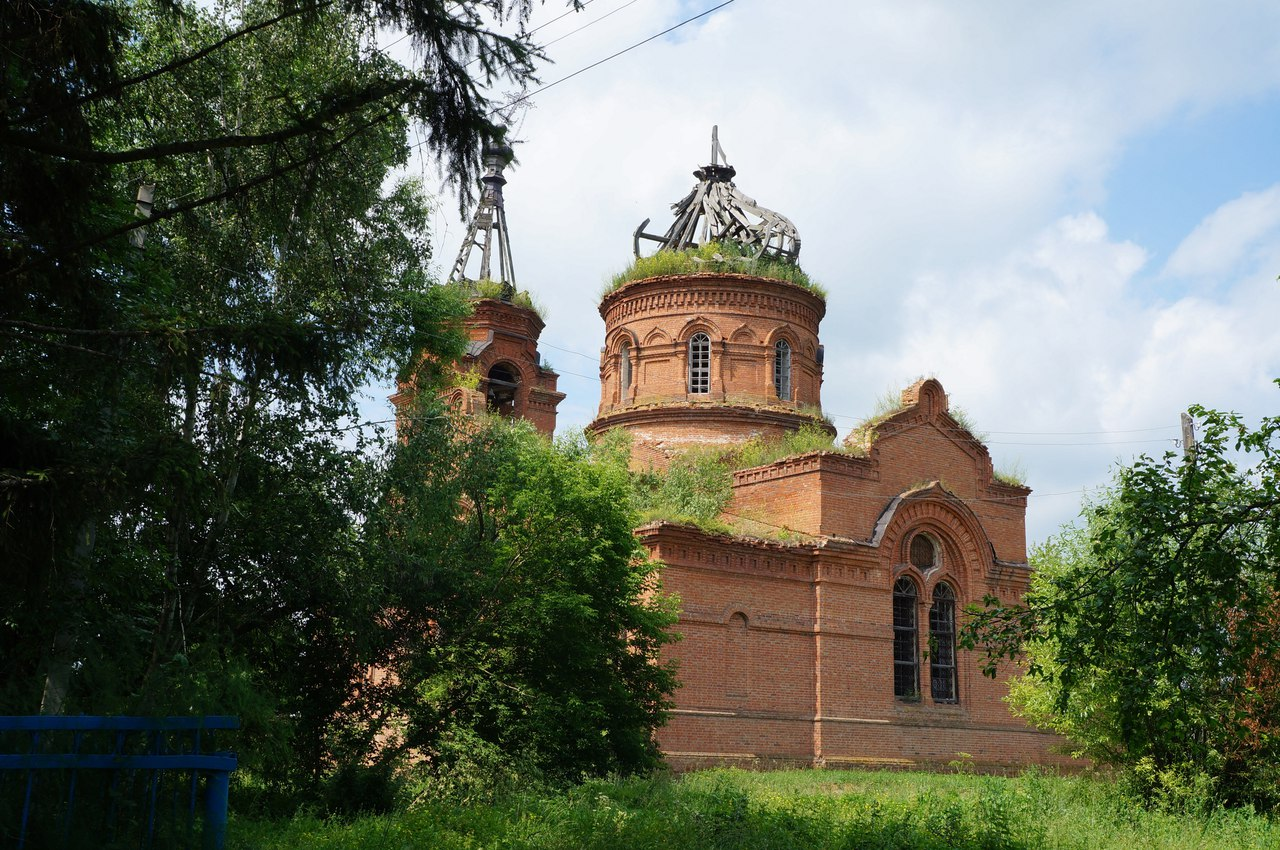 St. Nicholas Church (architectural monument of the 2nd half of the 19th c.). in Erzya village Kosogory village (Gosagyr), Bolshebereznikovsky District of Mordovia, Russia